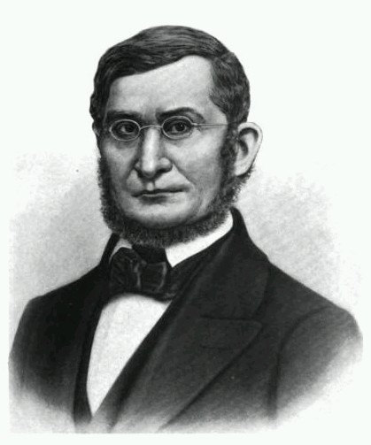 Picture of Charles Thomas Jackson, geologist and physician